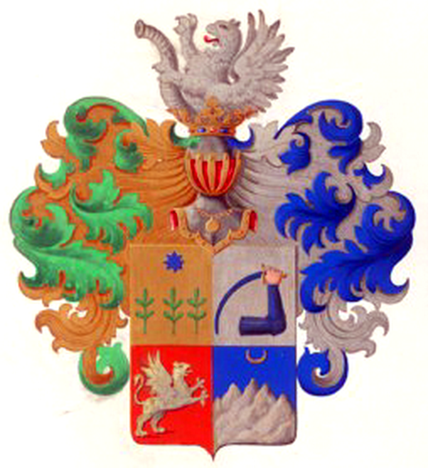 Coat of Arms of family Kwietnicki